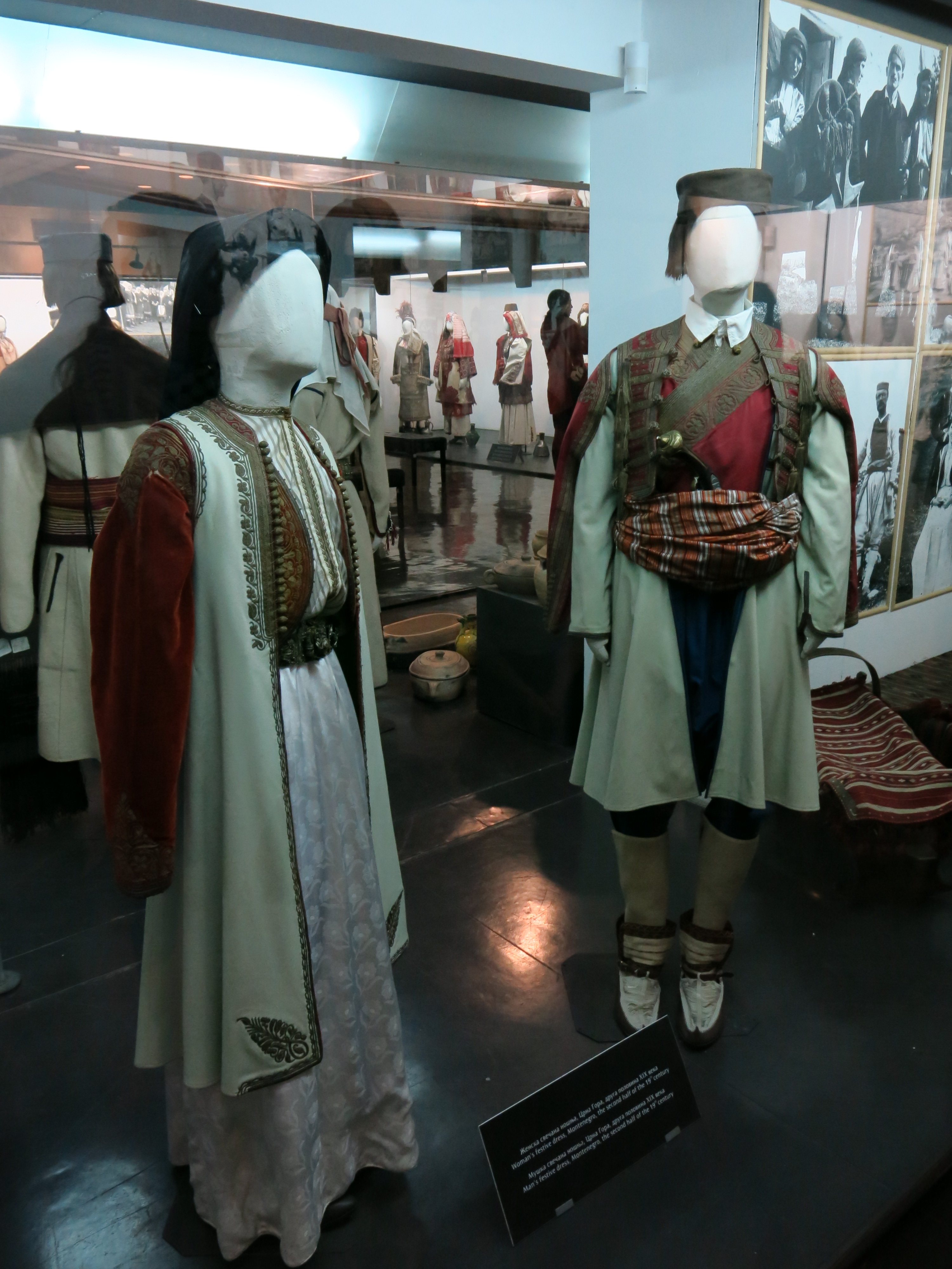 Ethnografic Museum in Belgrade, Serbia